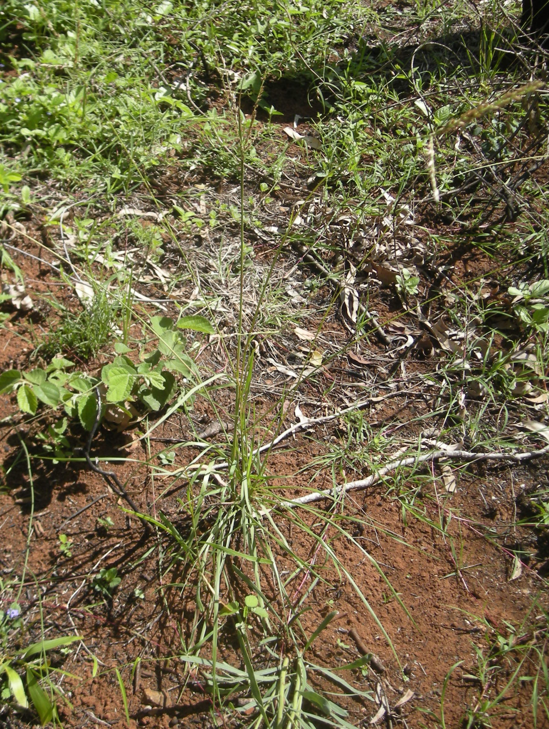 Alloteropsis semialata (Cockatoo Grass) plant